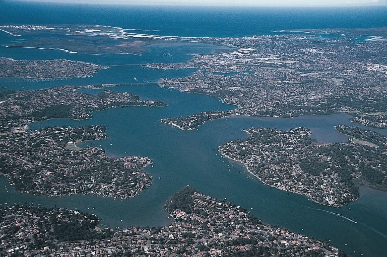 Georges River in the southern suburbs of Sydney. The mouth of Port Hacking is just visible in the top right of the photograph. The original, but seriously misleading, caption read: '"Port Hacking, in the southern suburbs of Sydney (Australia) is a ria, or drowned river valley. The deeply indented shape of the ria reflects the dendritic pattern of drainage that existed before the rise in sea level that flooded the valley."